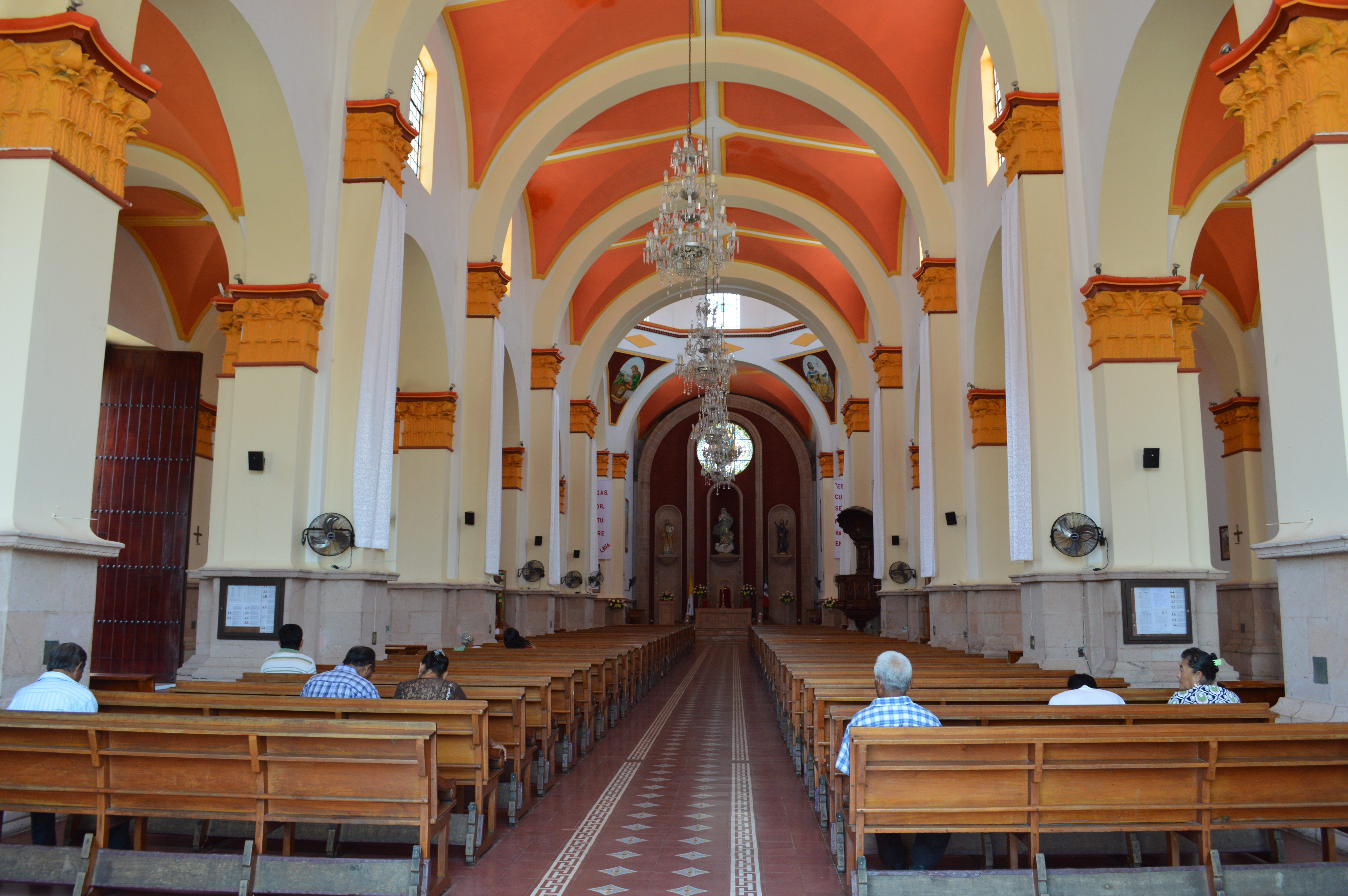 Interior of the Cathedral of San Andres Tuxtla, Veracruz, Mexico